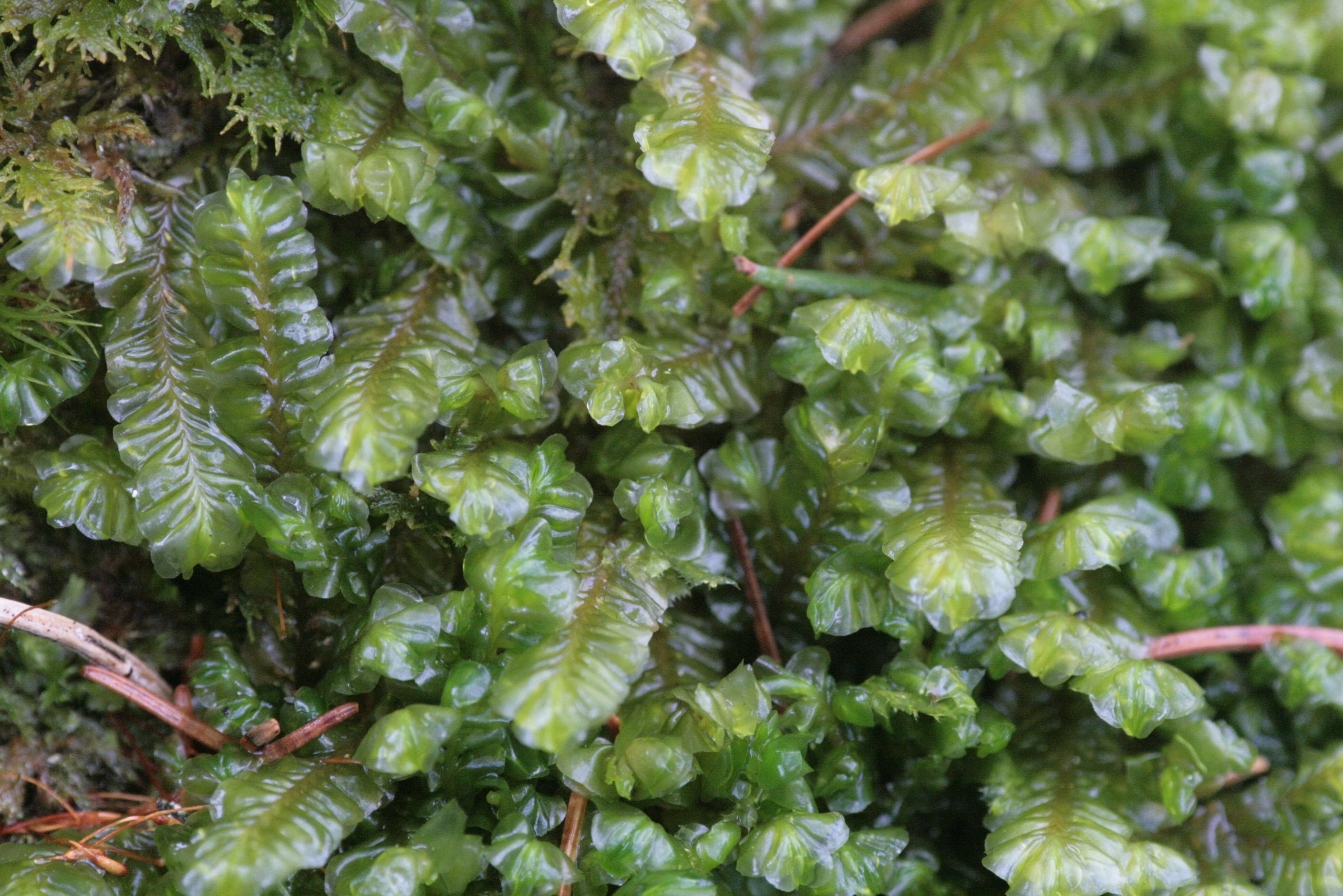 Plagiochila asplenioides